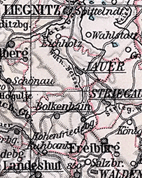 Detail from a map of Silesia.